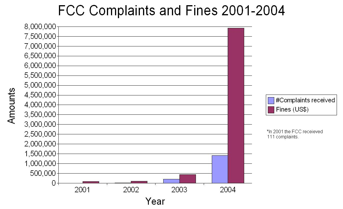 Chart depicting Federal Communications Commission received complaints and issued fines from 2001 to 2004. Complaints increased since 2003 due to stealth campaigns by the Parents Television Council and especially in 2004 due to Super Bowl XXXVIII halftime show controversy